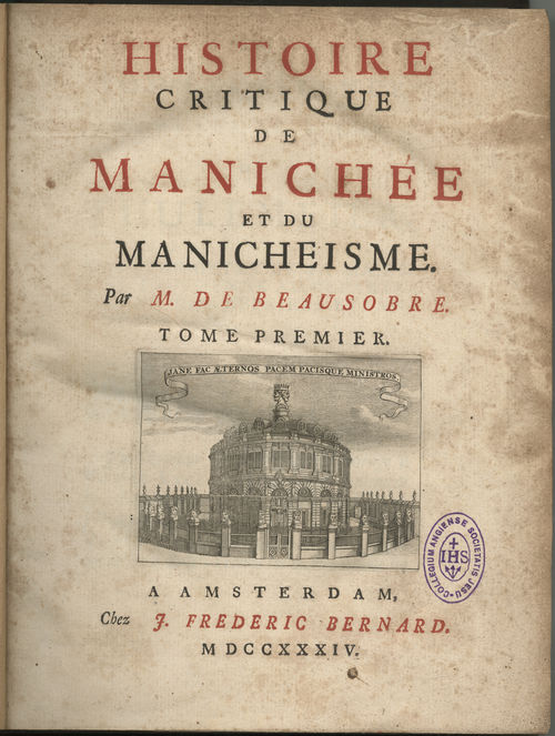 Histoire critique de Manichée et du Manichéisme by Isaac de Beausobre